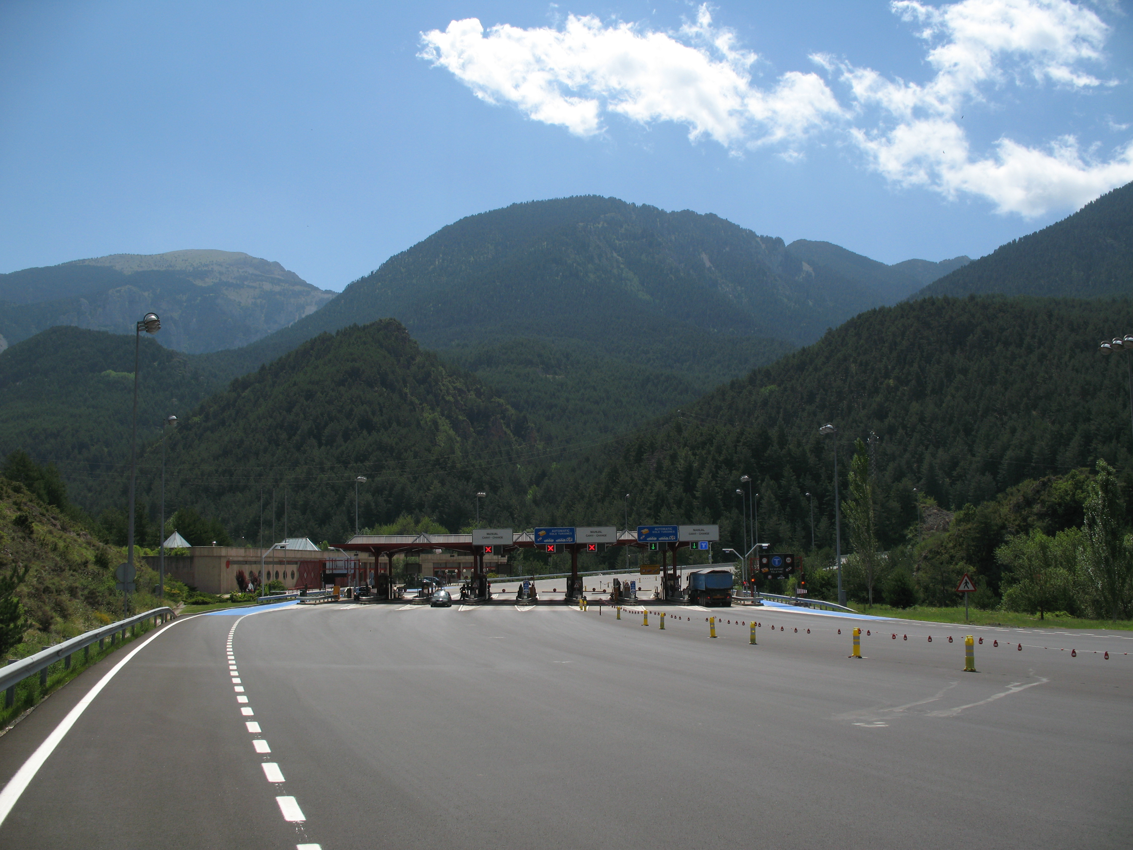 Toll at the northern entry of Cadi Tunnel.